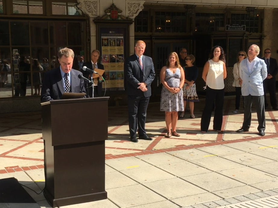 Introducing Don Gummer, an artist who created 8 sculptures which will be on display for one year on the Cultural Trail.